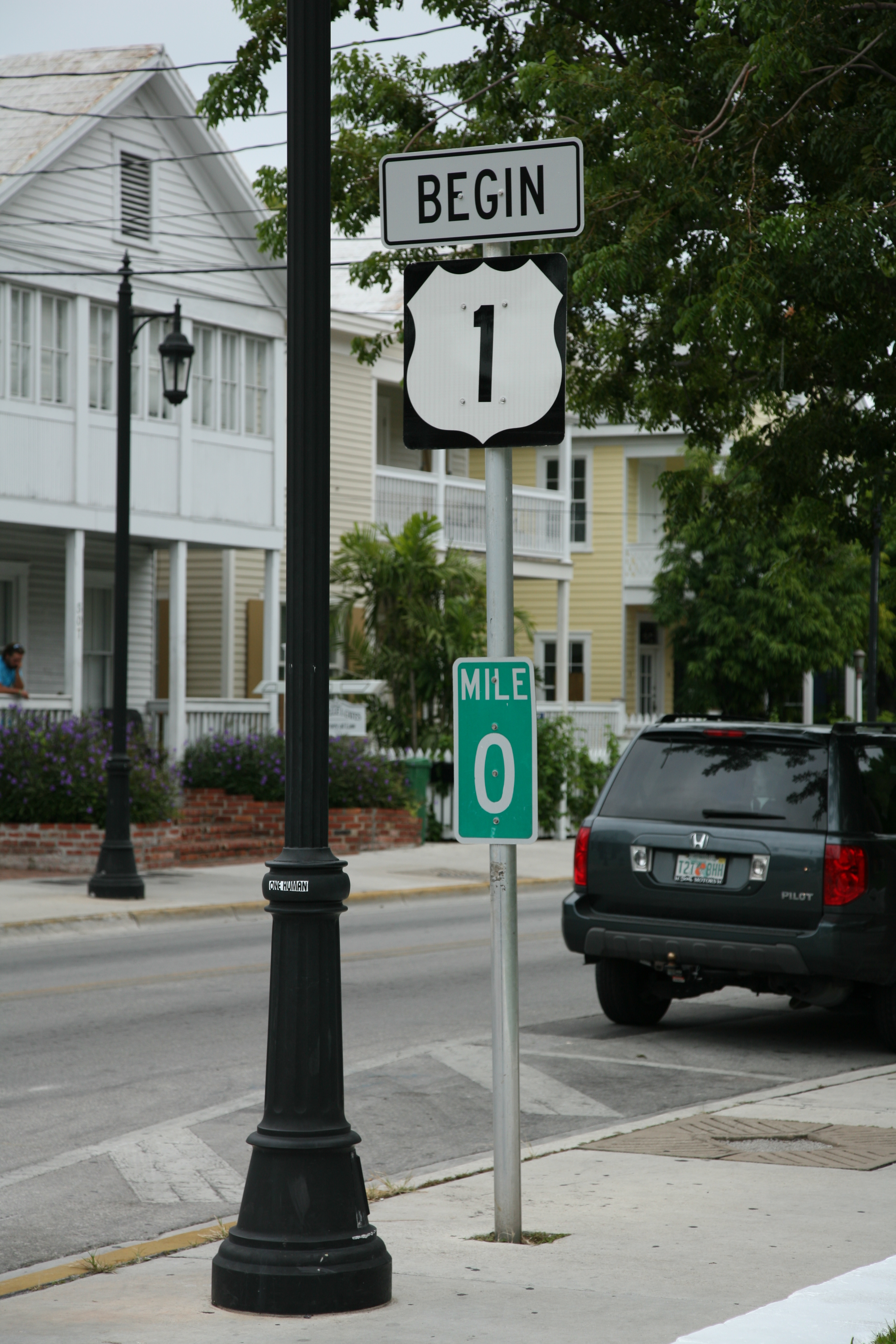 Beginning of U.S. Highway 1 in Key West, Florida